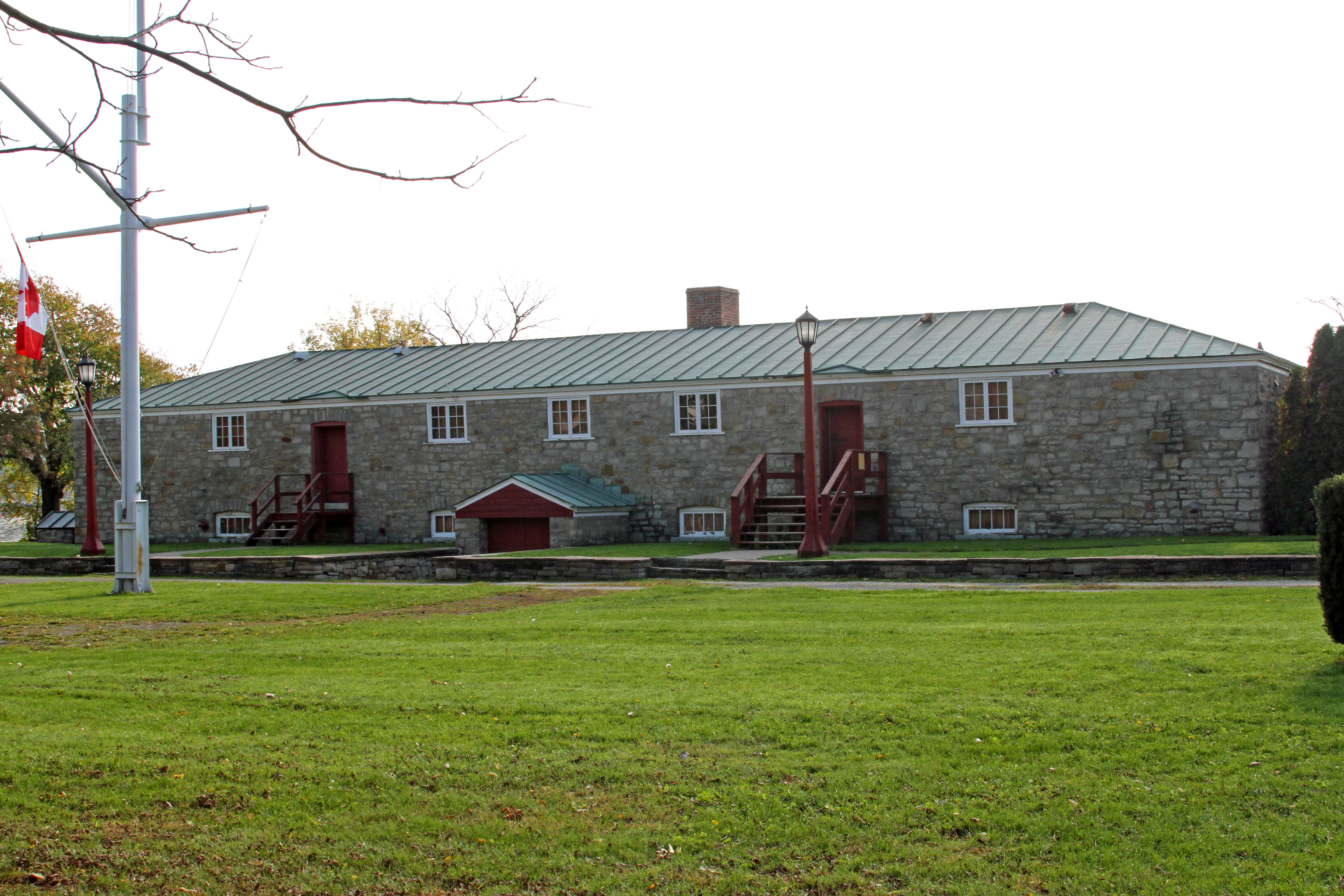 Navy Hall at Niagara-on-the-Lake, Ontario, Canada is one of the earliest buildings of the border fortifications.